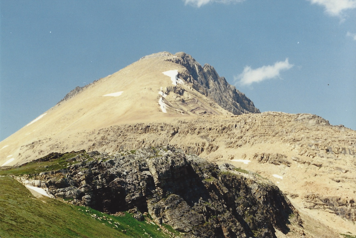 Cirque Peak, Banff National Park, Alberta, Canada View from Hidden Lake Summit elevation: 2,993 metres (9,820 ft)